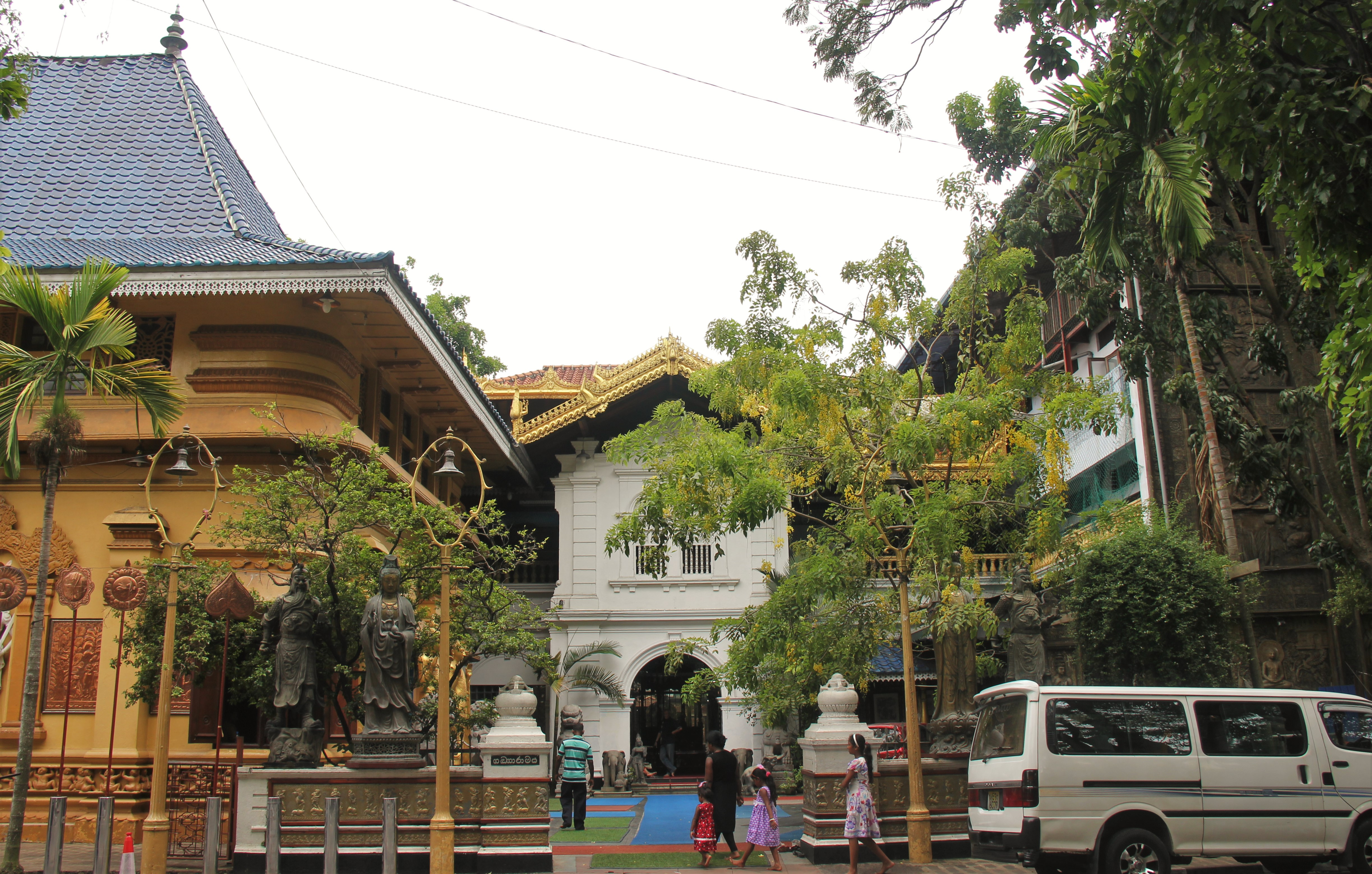 Gangaramaya Temple. 61 Sri Jinarathana Road, Colombo, Sri Lanka